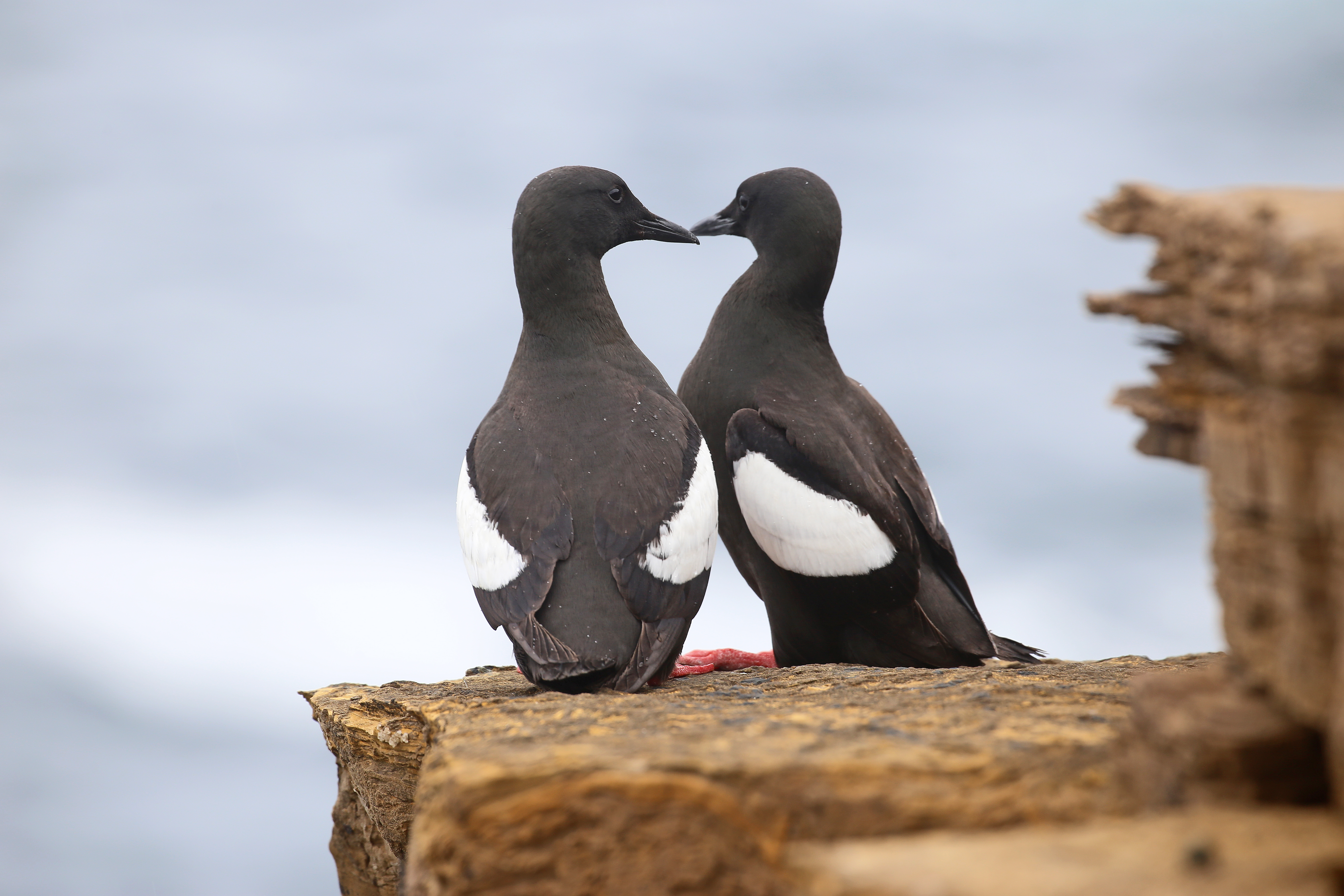 Taken July 2018